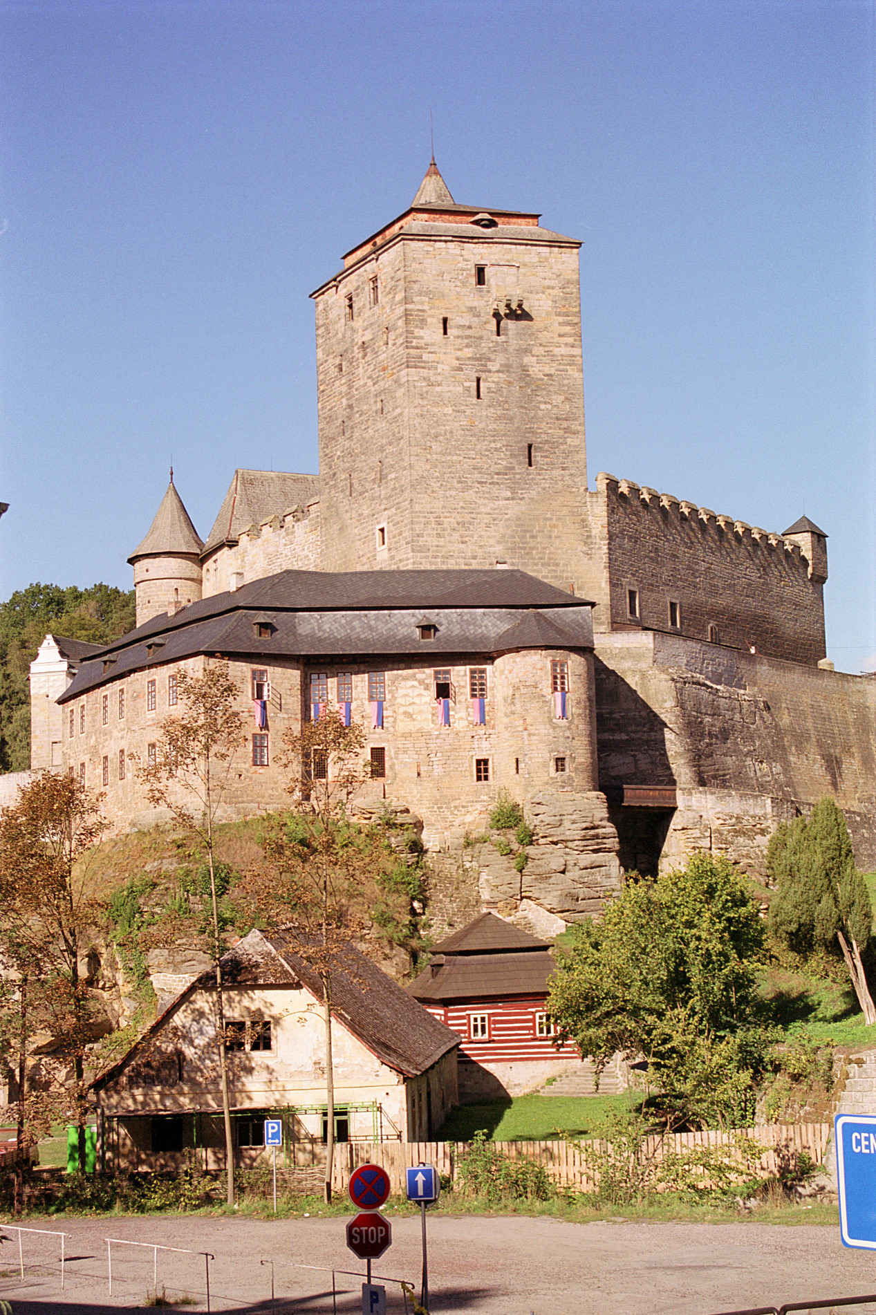 castle Kost in Czech Republic picture taken by me in summer 2004 licensed by me under GNU-FDL